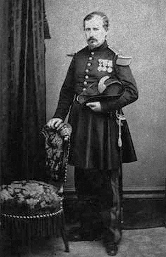 Pierre Marie Philippe Aristide Denfert-Rochereau (1823-1878), french officer and member of the French Parliament.